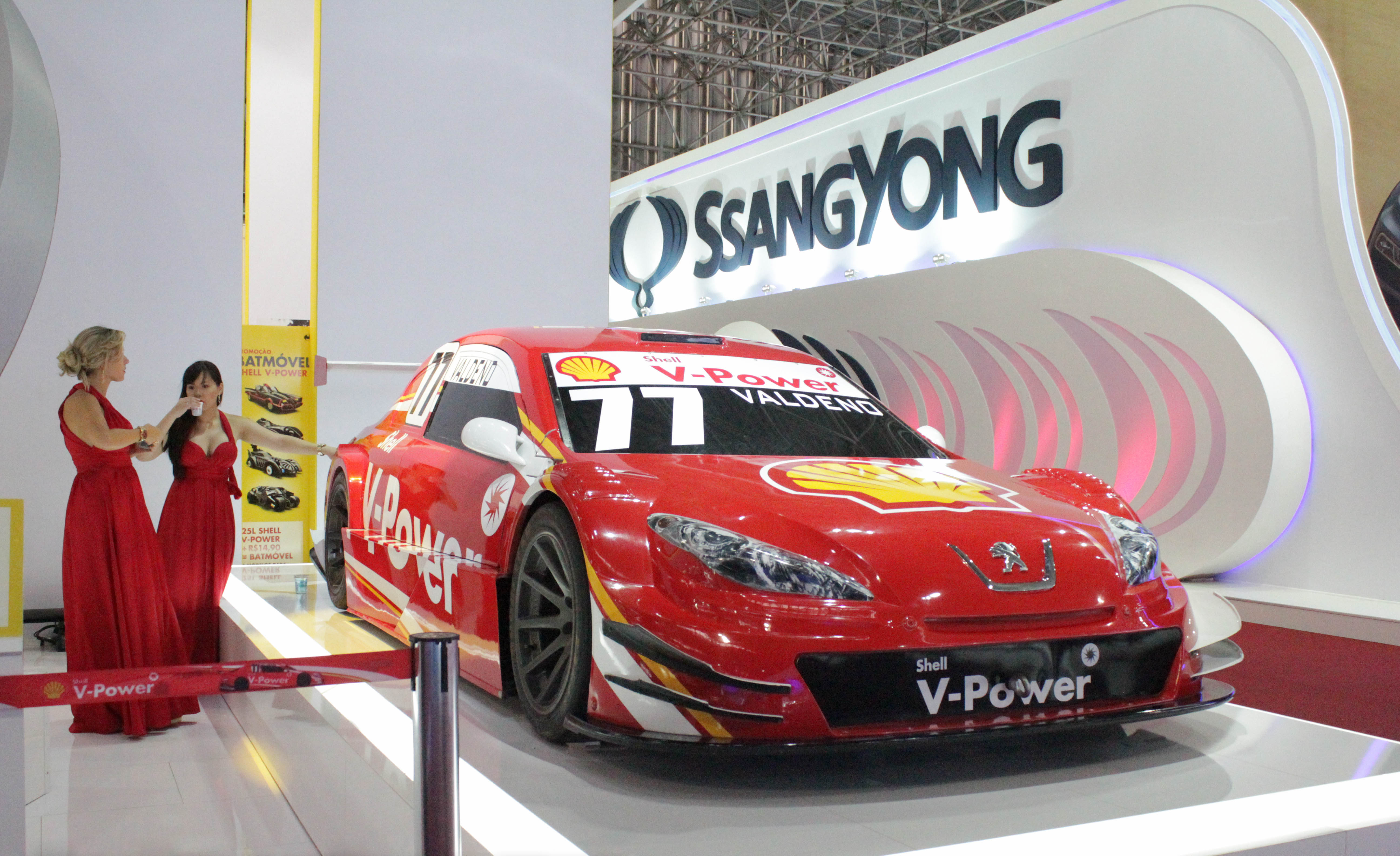 Shell V-Power StockCar